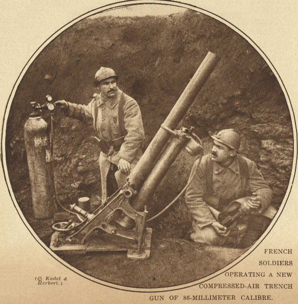 Photograph in New York Times, 17 February 1918, described as "French soldiers operating a new compressed-air trench gun of 86-millimetre calibre" Comment : appears to show the Mortier pneumatique de 86 mm Boileau - Debladis".